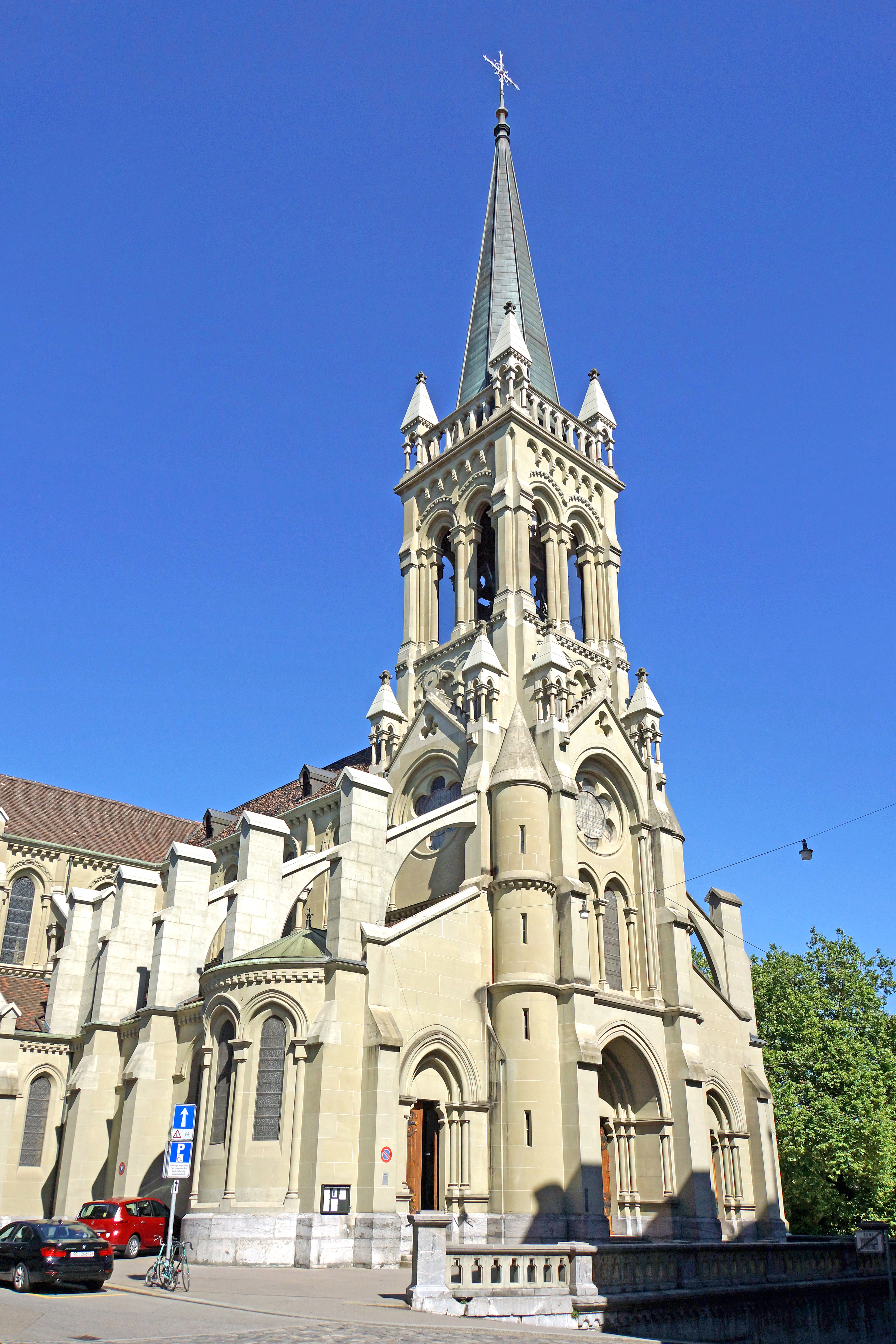 PLEASE, NO invitations or self promotions, THEY WILL BE DELETED. My photos are FREE to use, just give me credit and it would be nice if you let me know, thanks. The Christian Catholic Church of Switzerland is the Swiss member church of the Union of Utrecht of Old Catholic Churches. The Union of Utrecht was originally founded by some Jansenists with a later influx of discontented Roman Catholics following their disappointment with the First Vatican Council (1869-1870). The church is a national Swiss church and recognized in 11 cantons by the government. Since 1874, the University of Bern has had its own Christian Catholic theological faculty, which is now one part of the Faculty of Theology.